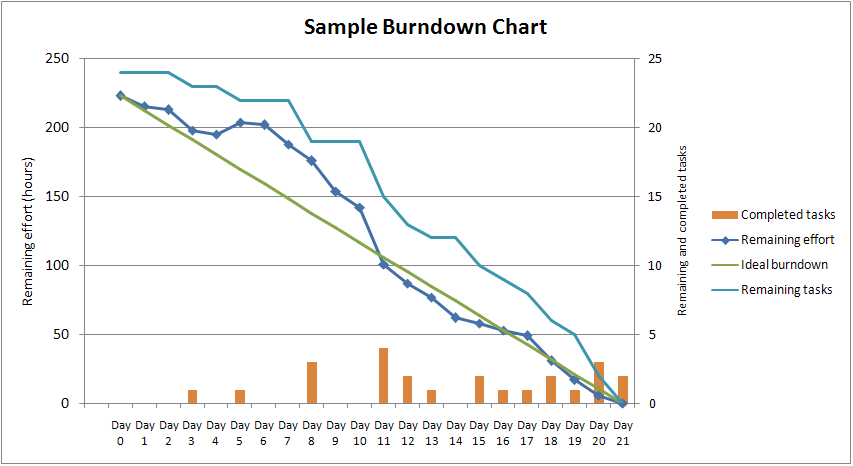 A sample burndown chart as used in Agile software development methodologies, for example Scrum.